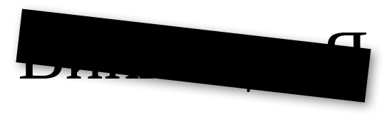 Wikipedia-ru-censorship